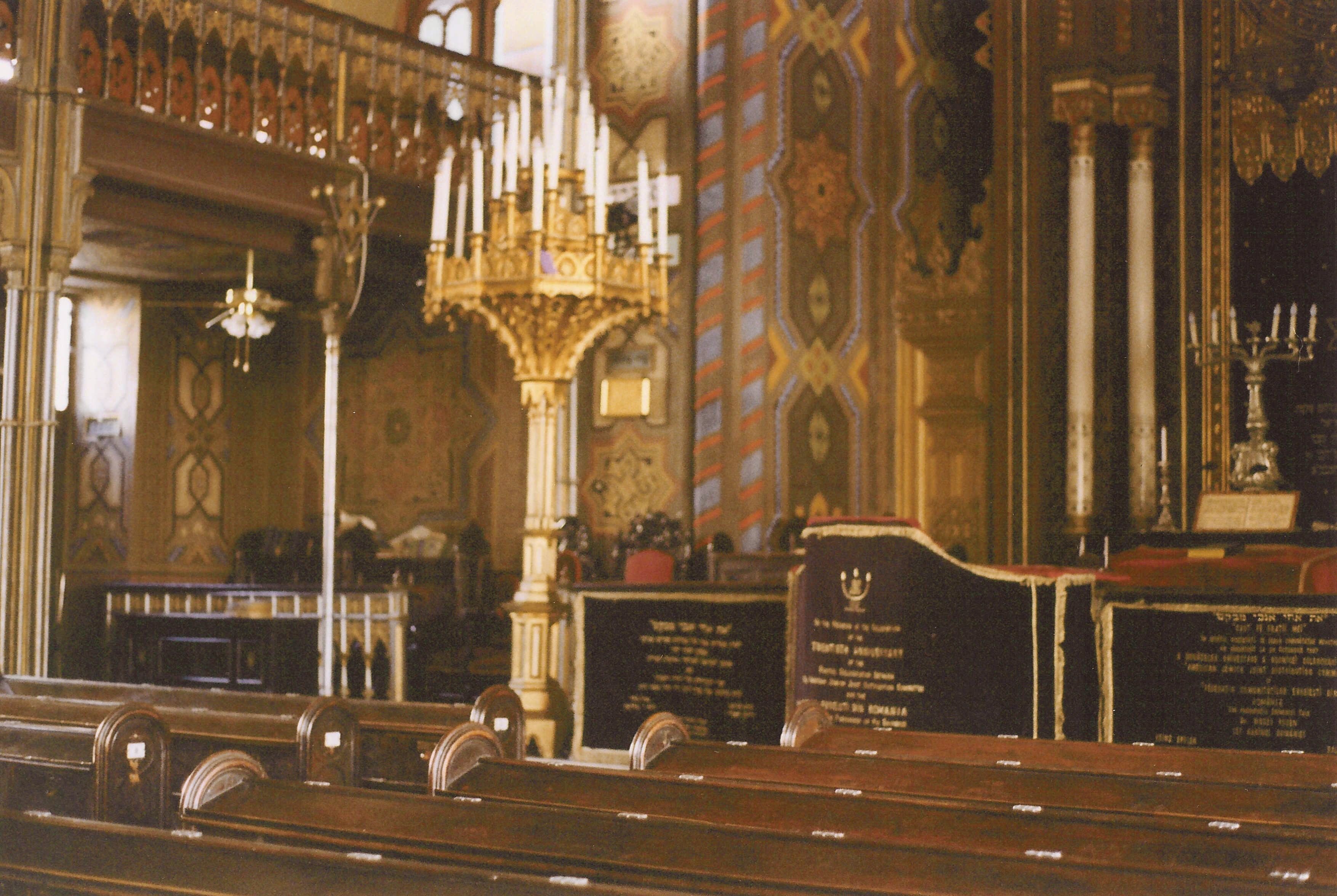 Interior of the Choral Temple, the main synagogue of Bucharest, Romania. With the declining Jewish population in that city, this main hall is seldom used; most services are held in a smaller room.